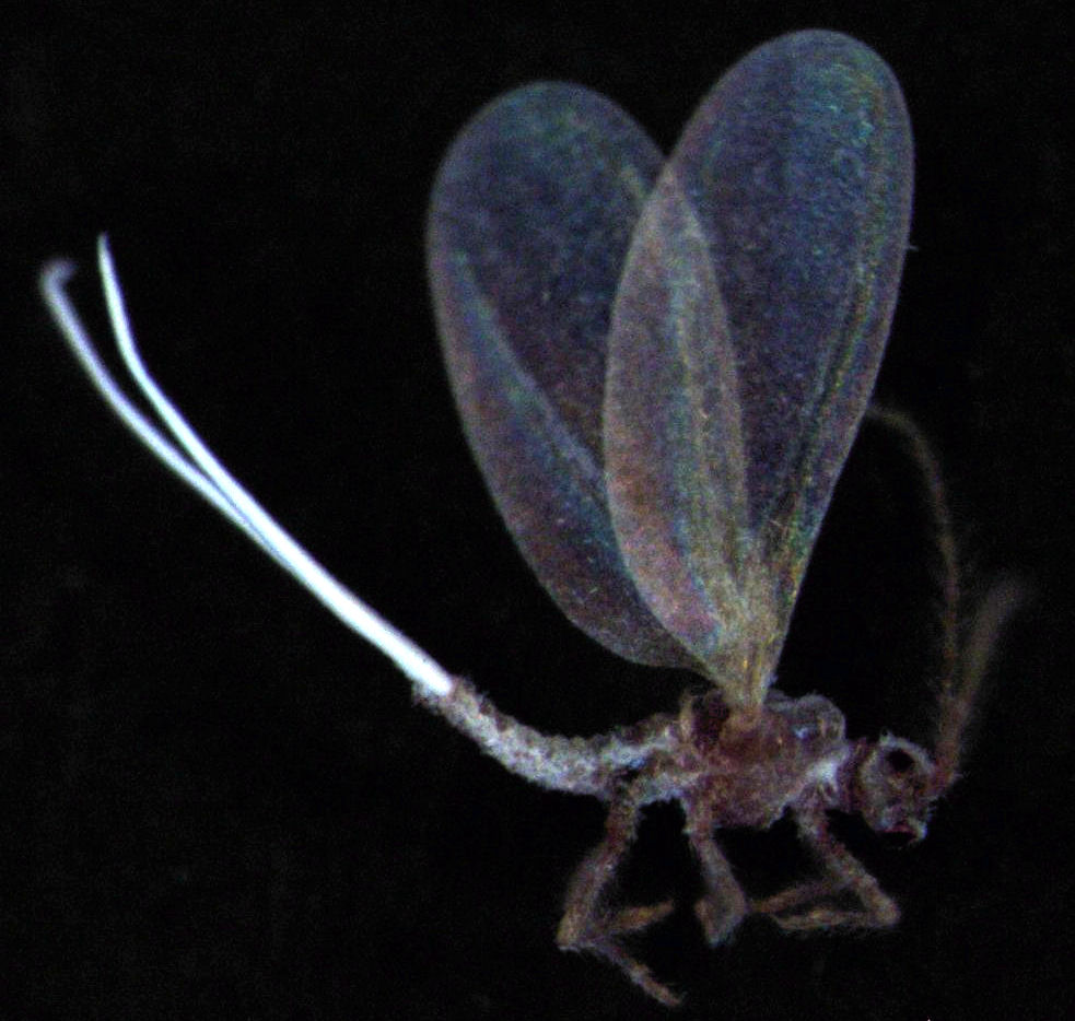 male scale insect/mealy bug